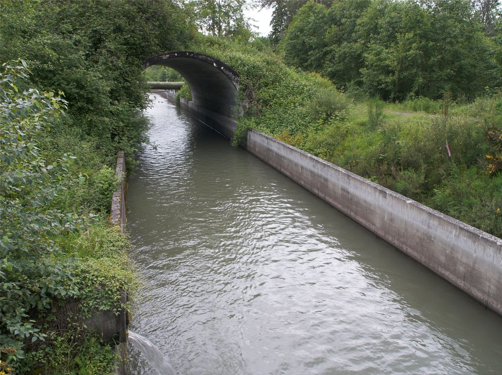 I took this picture in June 2005 of the flume that passes through Buckley, WA and grants its use other the Creative Commons Attribution-Sharealike 2.5.